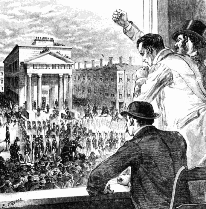 The rendition of Anthony Burns in Boston.